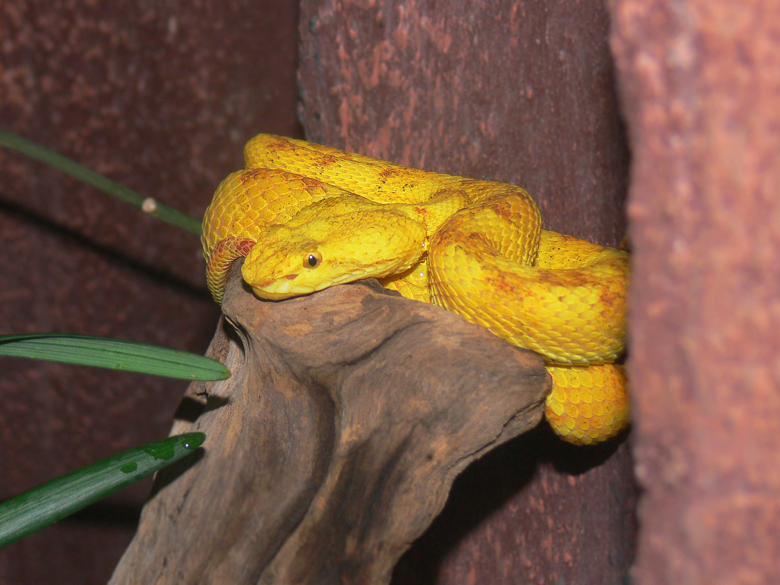 An eyelash viper, Bothriechis schlegelii , taken at Melbourne zoo in Australia.